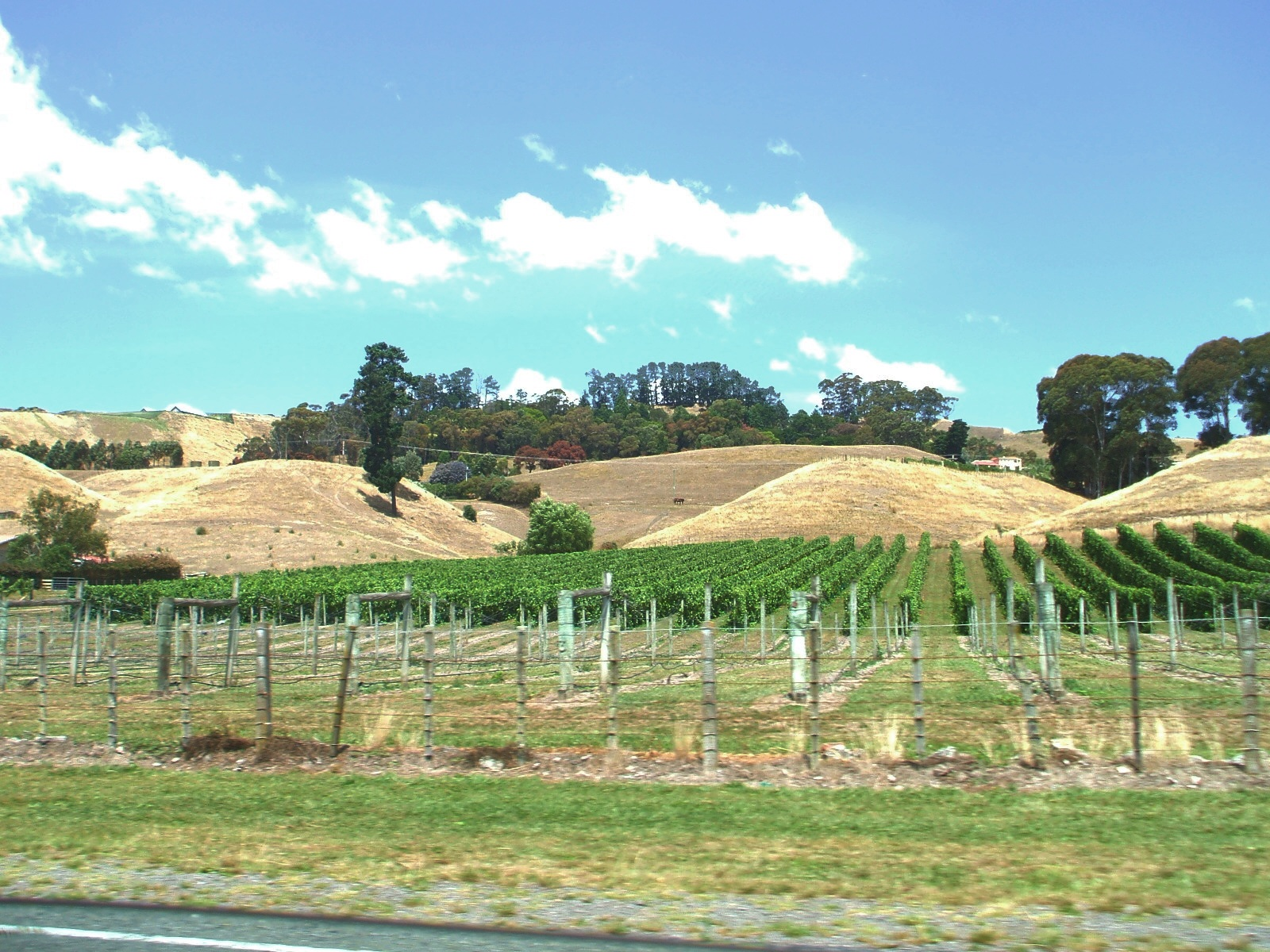 Taken by me in my hometown of Havelock North. Lush green vines against browning Havelock Hills.